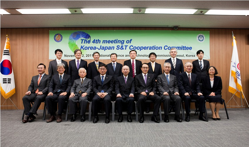 Masuo Aizawa, Tasuku Honjo, Naoki Okumura, Reiko Aoki and Ryōji Chūbachi, Members of the Council for Science and Technology Policy, Cabinet Office, attended the Meeting of S and T Cooperation Committee in South Korea on November 2, 2011.